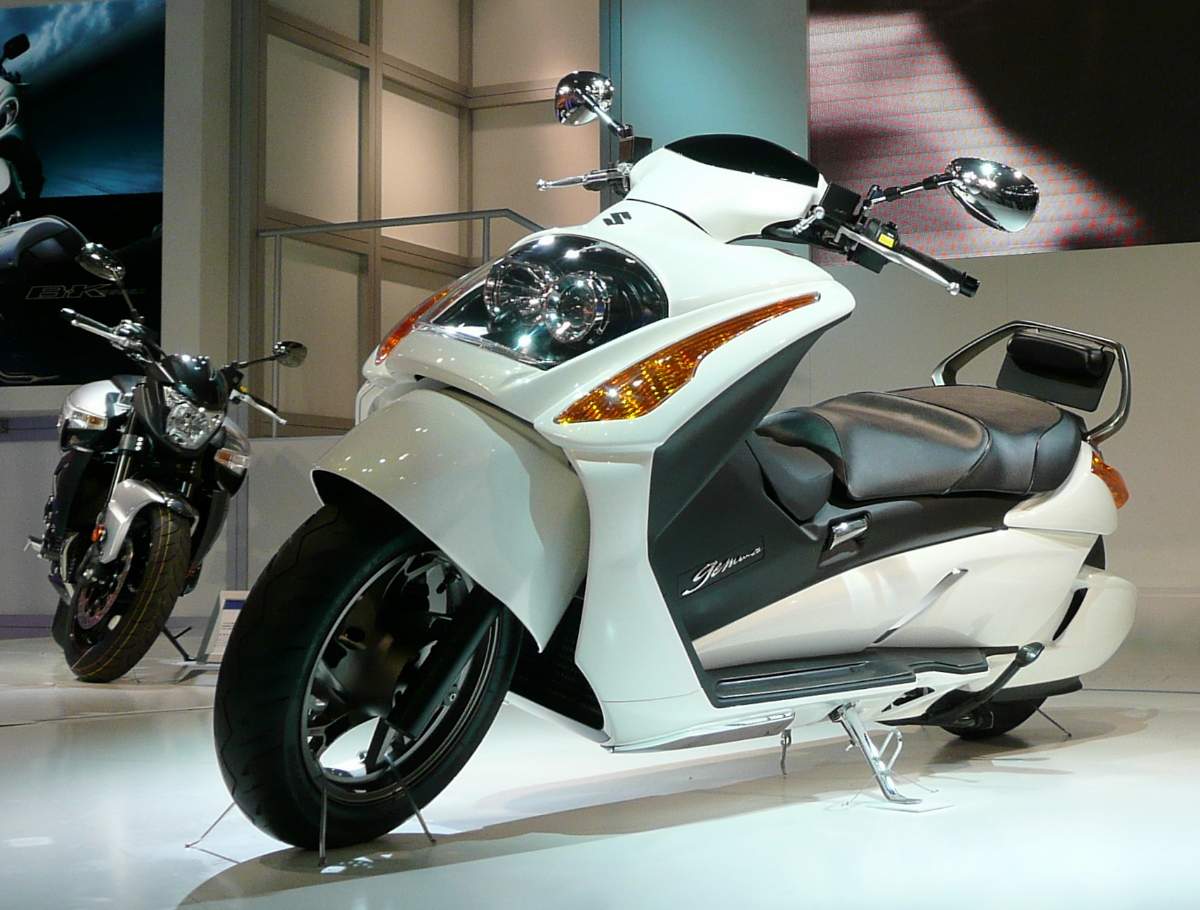 Suzuki GEMMA (2007 Tokyo Motor Show concept model)